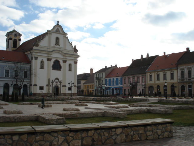 Vác, main square. Március 15. tér 19-21-23